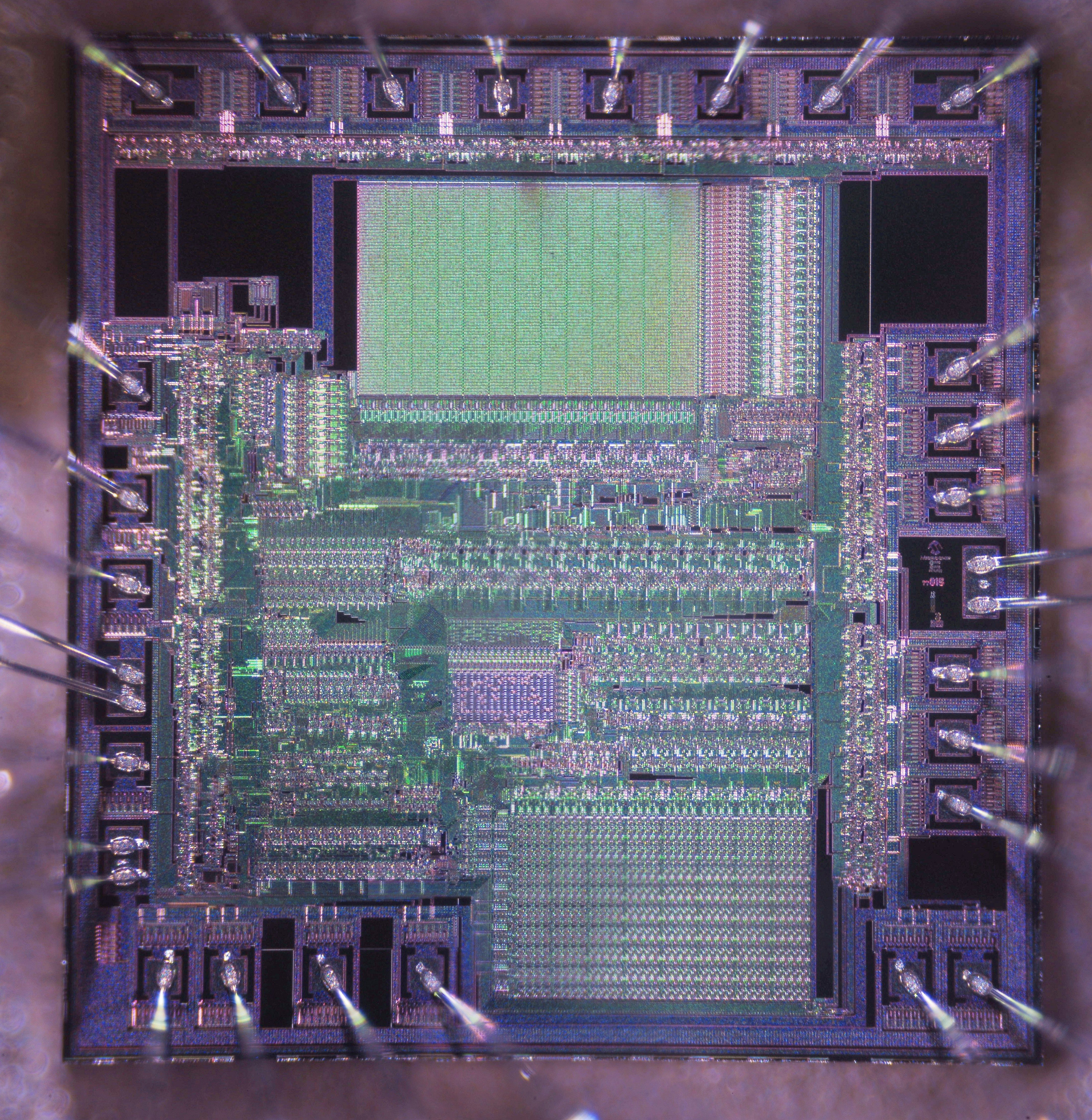 The die of PIC16C57 Microcontroller by Microchip co.